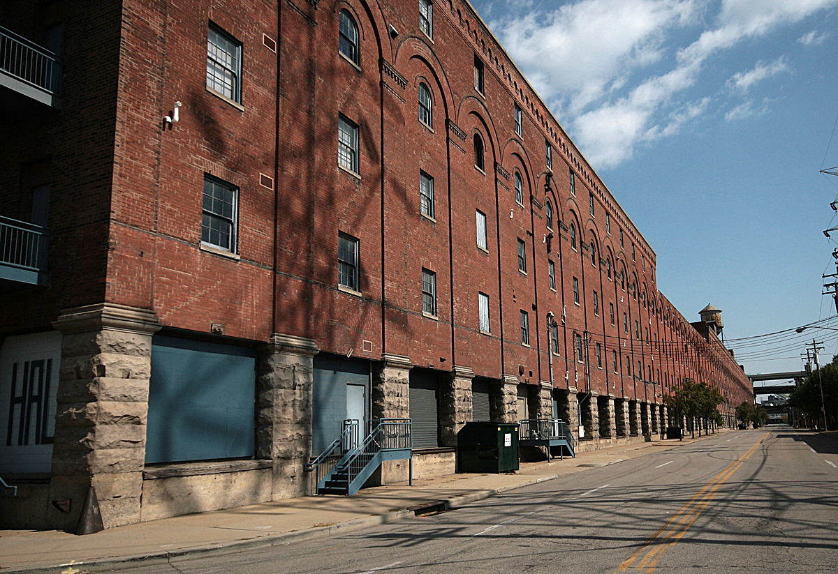 B&O Freight terminal building in Cincinnati, OH. Photo by Greg Hume